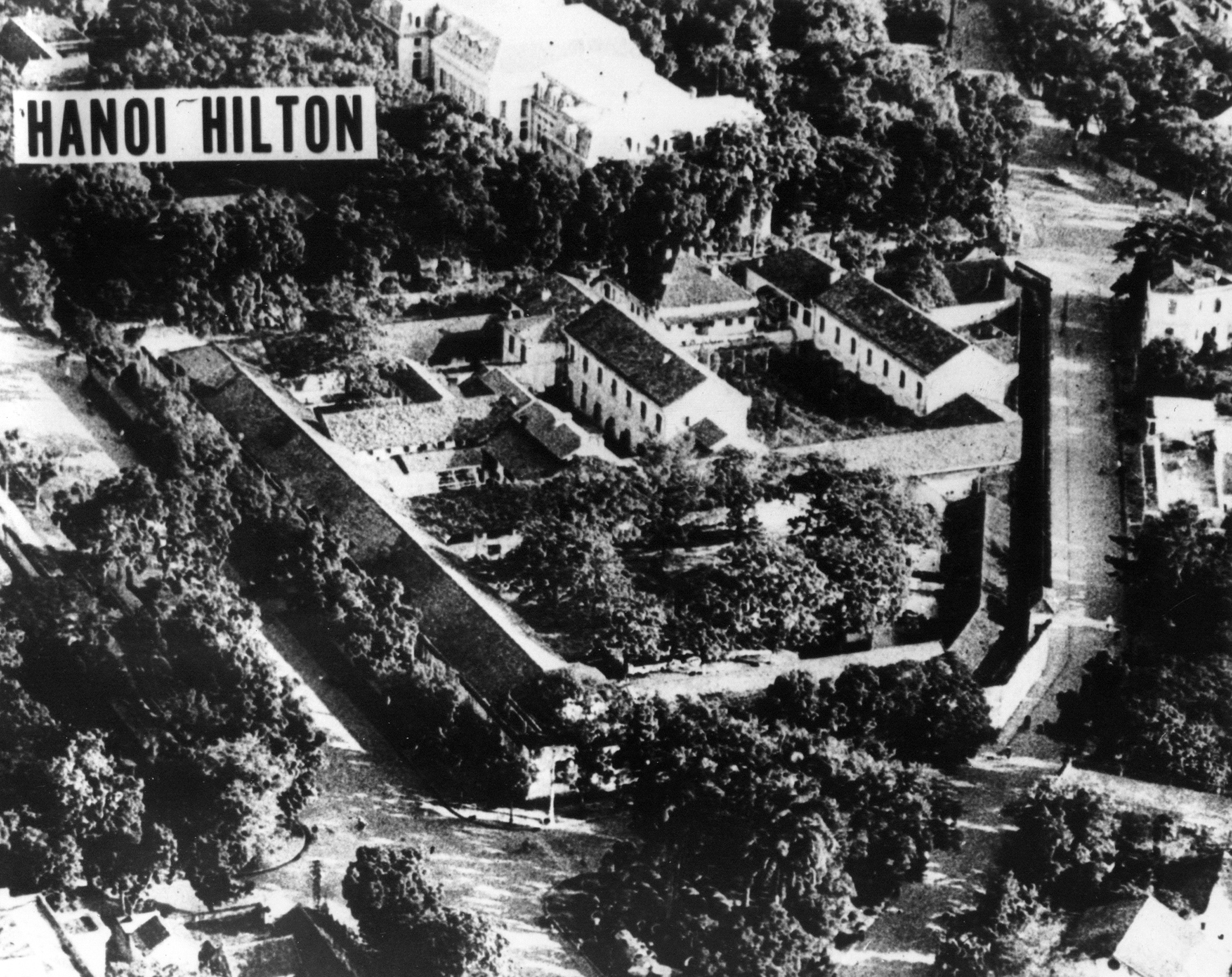 The Hoa Lo Prison, dubbed the Hanoi Hilton by the American POWs held there during the Vietnam War.